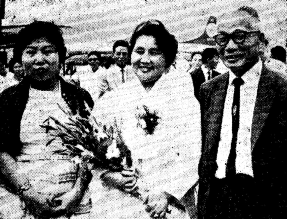 Choi Yong-duk (right), newly-appointed ambassador of Korea to the ROC, arrived at Taiwan yesterday (19 July) to assume post, along with his wife (center) and daughter (left).